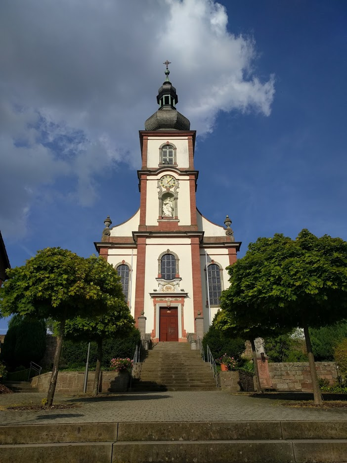 The Katholische Pfarrkirche St. Bartholomäus, located in Hilders, Germany. Frontside.